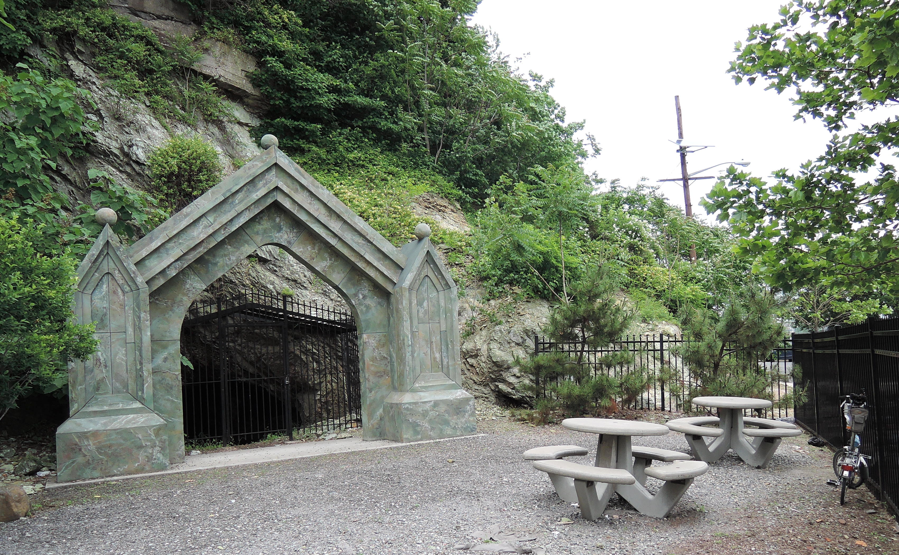 Looking north at cave entrance.